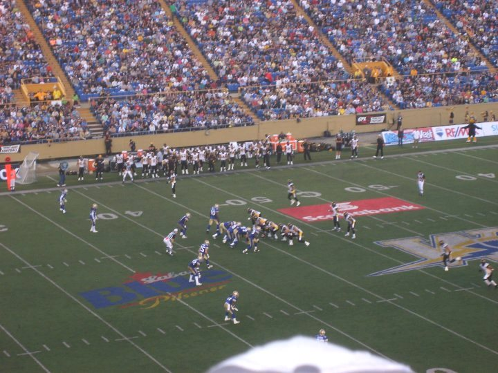 August 2010, Canad Inns Stadium